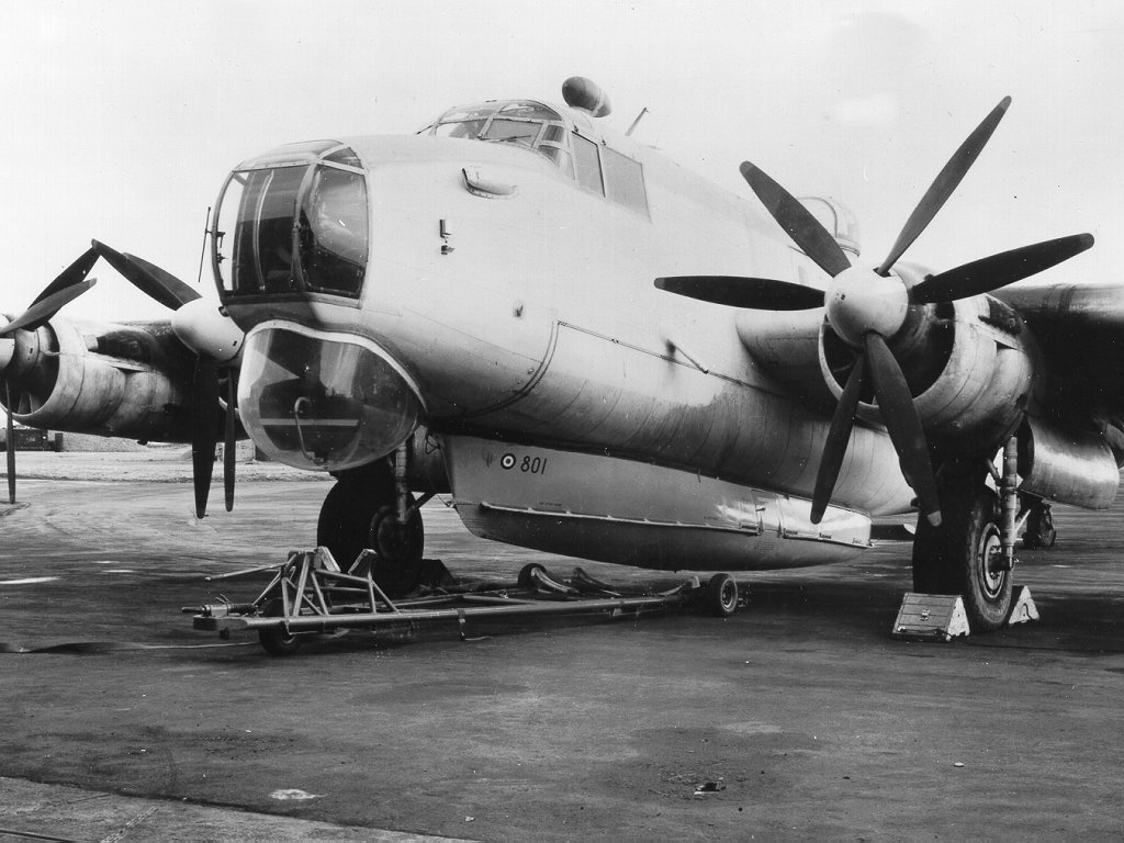 RAF Air/Sea Search and Rescue Avro Shackleton with Saunders-Roe airborne lifeboat slung underneath.